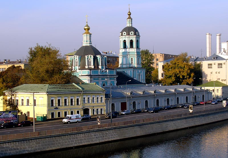 Church in Raushsckaya Embankment, 1749-1762, Moscow, Russia